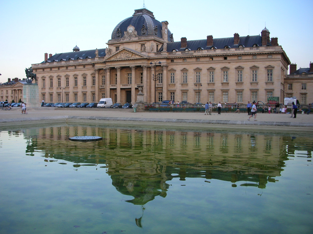 Taken from the Champ de Mars.